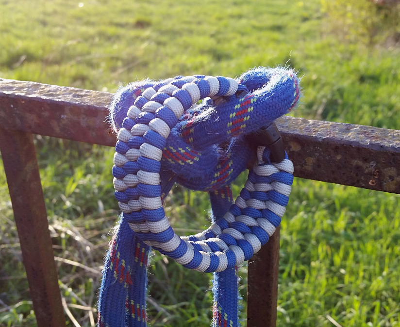 Survival bracelet with tying "Trilobite"